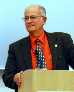 Eric Gans listens to Jeremiah Alberg's introduction at Tokyo GASC, 2012.